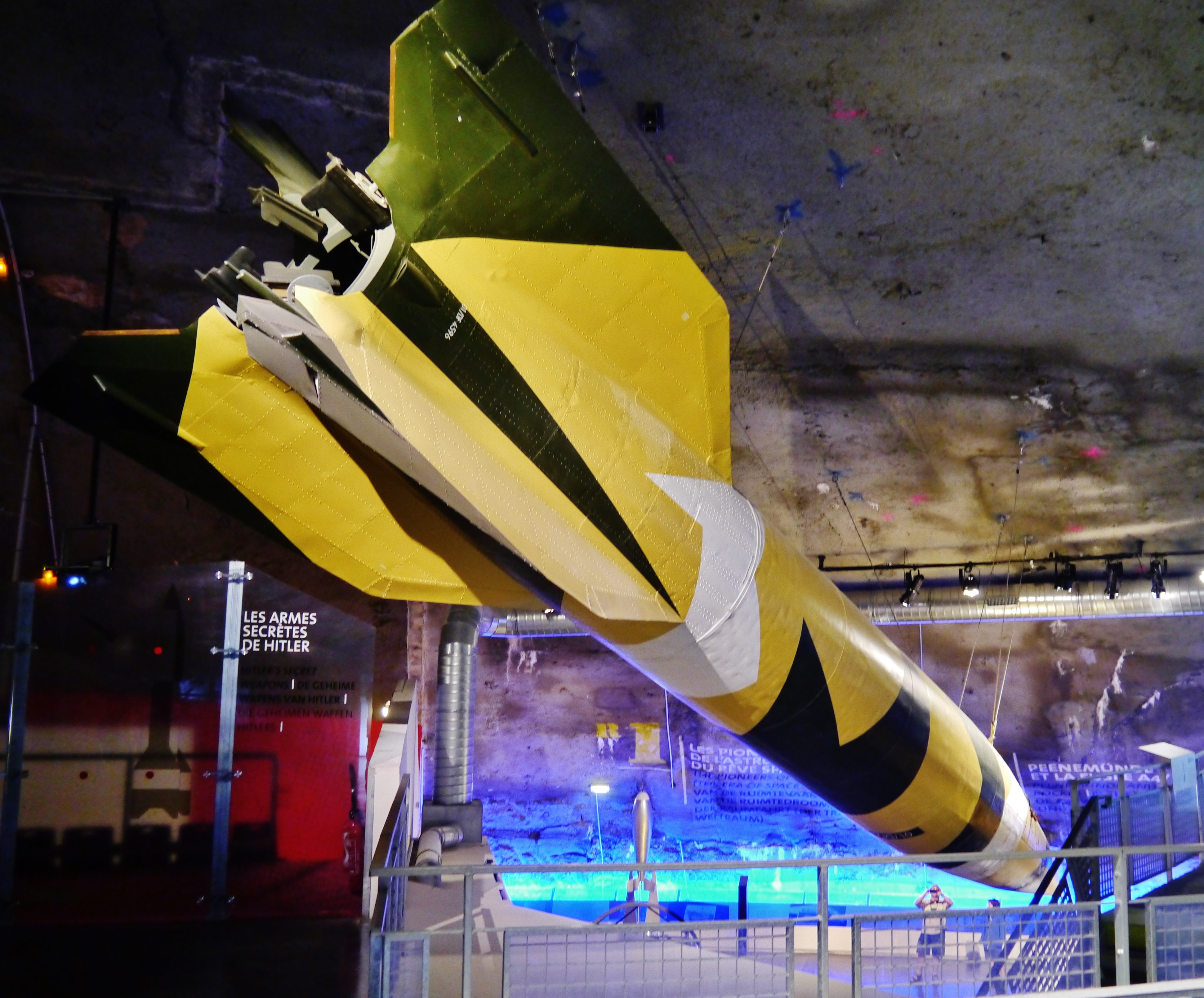 the V-2 inside the Dome of Helfaut, Helfaut, Département of Pas-de-Calais, Region of Upper France (former Nord-Pas-de-Calais), France